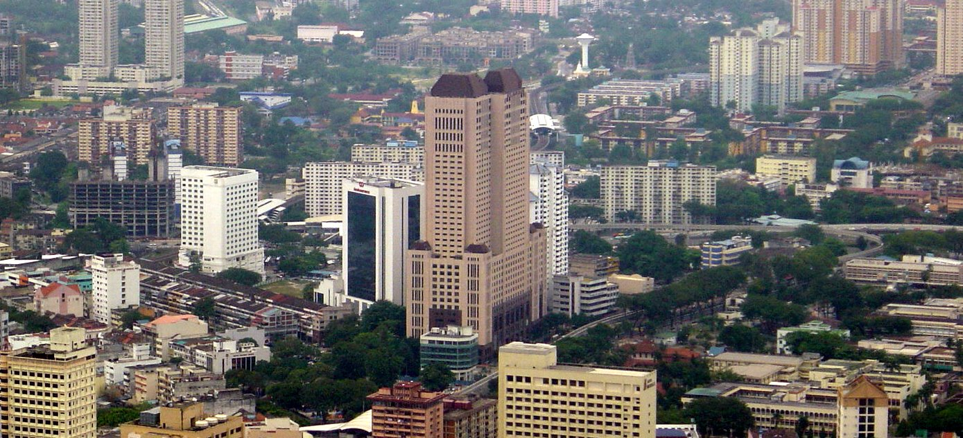 Grand Season Hotel-View from KL Tower